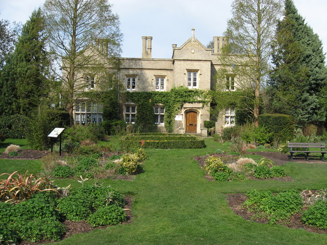 Cherry Hinton Hall in Cambridge, United Kingdom